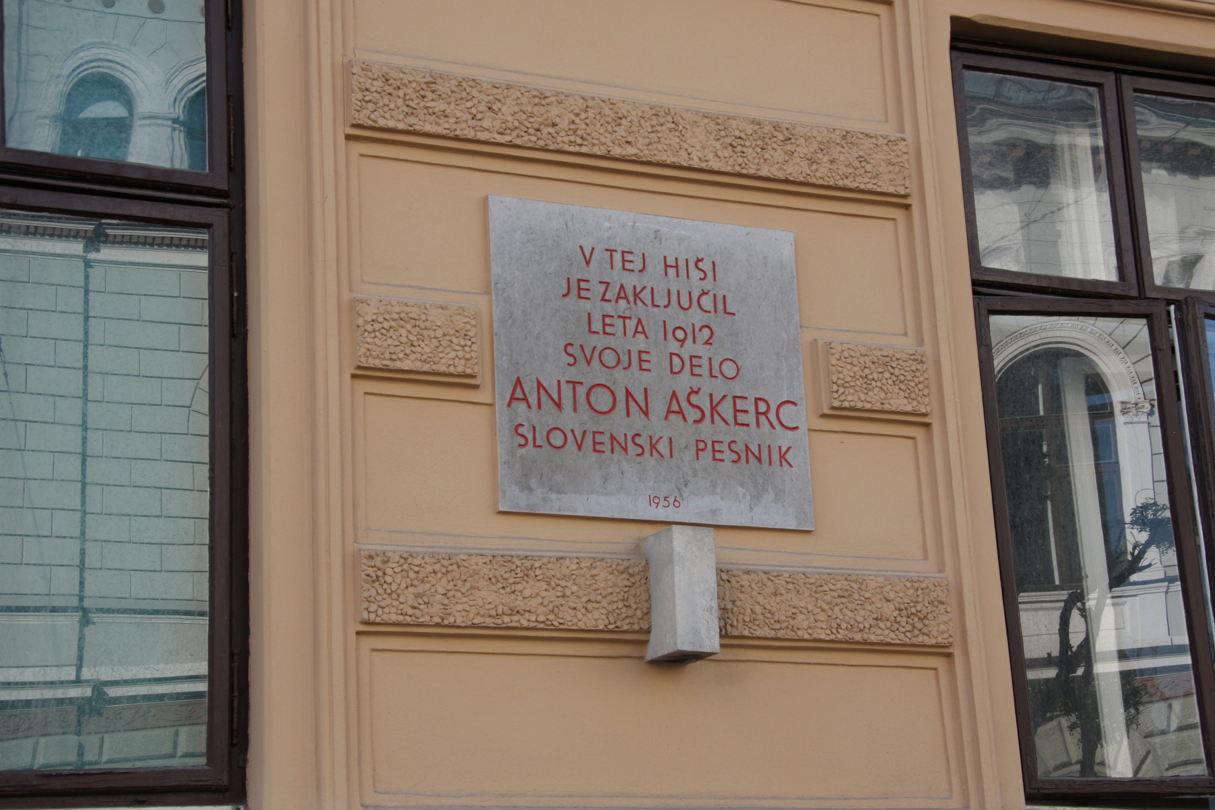 Memorial plaque to the poet Anton Aškerc at 9 Prešeren Street, Ljubljana.